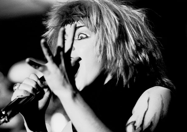 Toyah Wilcox performing in 2005 Photo: Eddie Mallin